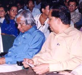 Then ISRO chief G. Madhavan Nair with APJ